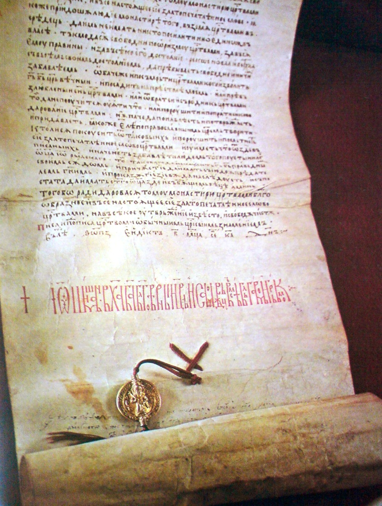 Golden bull of Rila, issued by tsar Ivan Shishman of Bulgaria on 21.09.1378. Rila monastеry